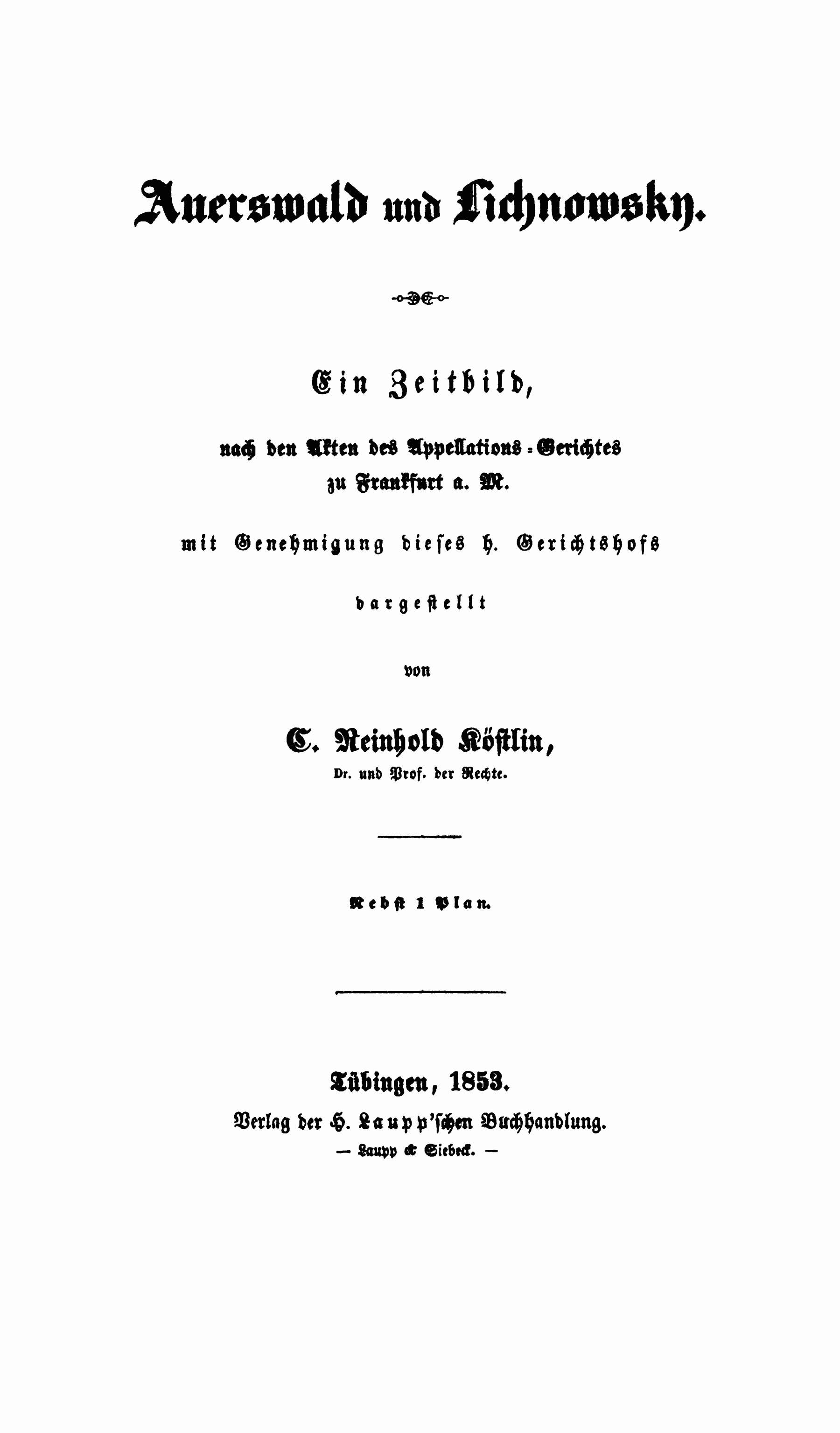 This is a scan of the historical document